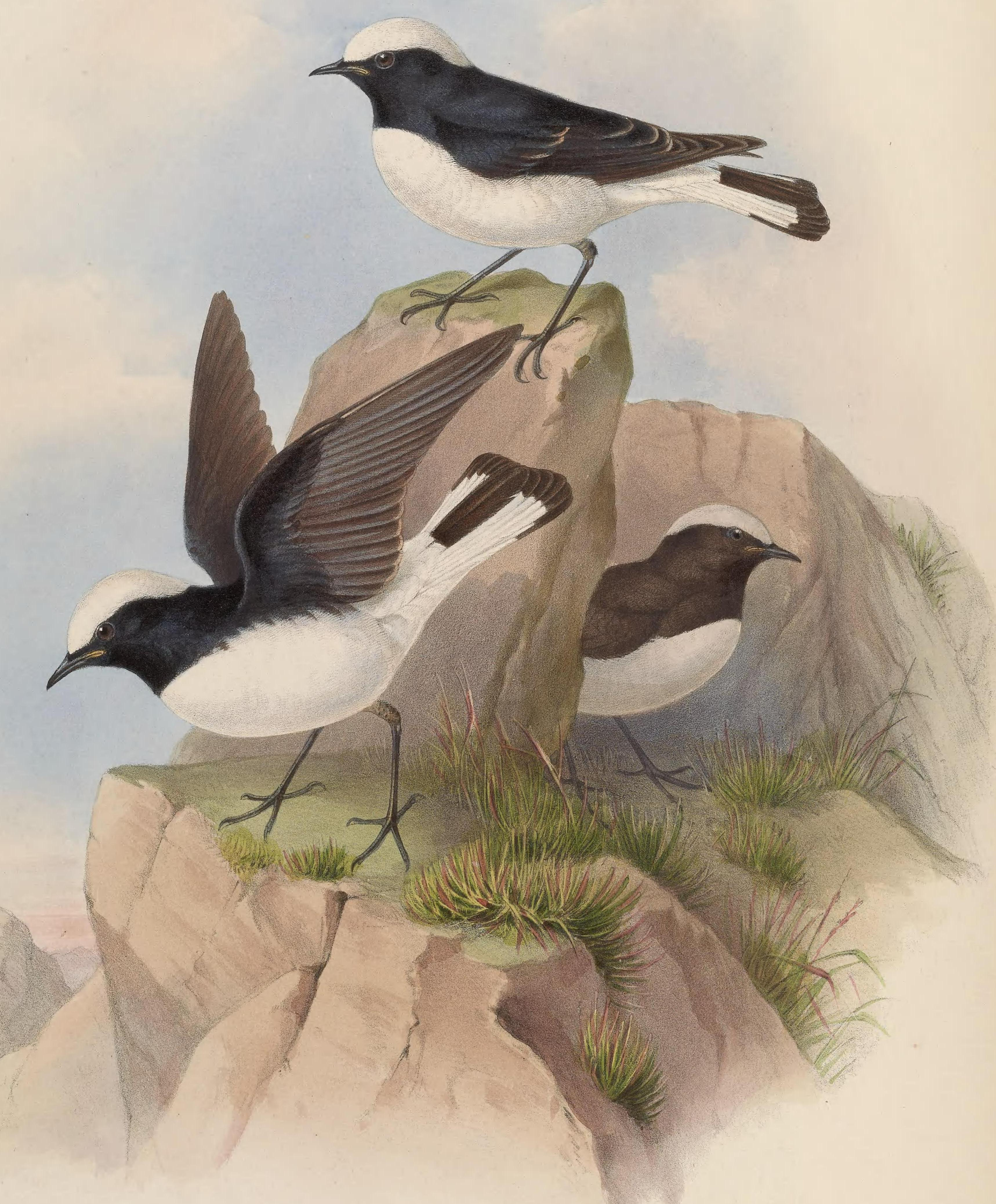 Oenanthe pleschanka (Saxicola leucomela)